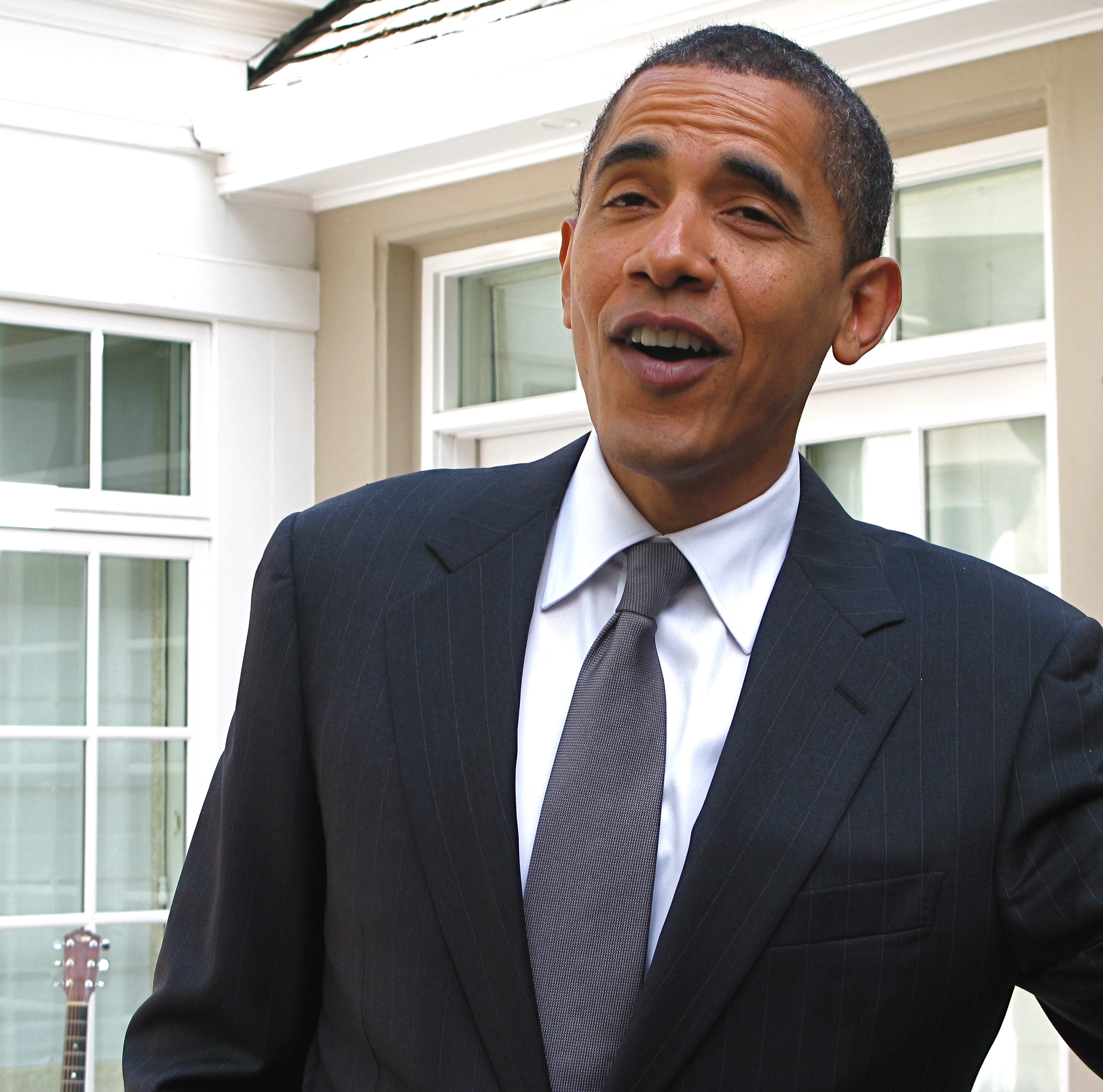 Aw Shucks?. I was looking through the hundreds of Obama photos that I have taken, and there were some funny moments. What an exciting time, as I just returned to the U.S.A. this evening?